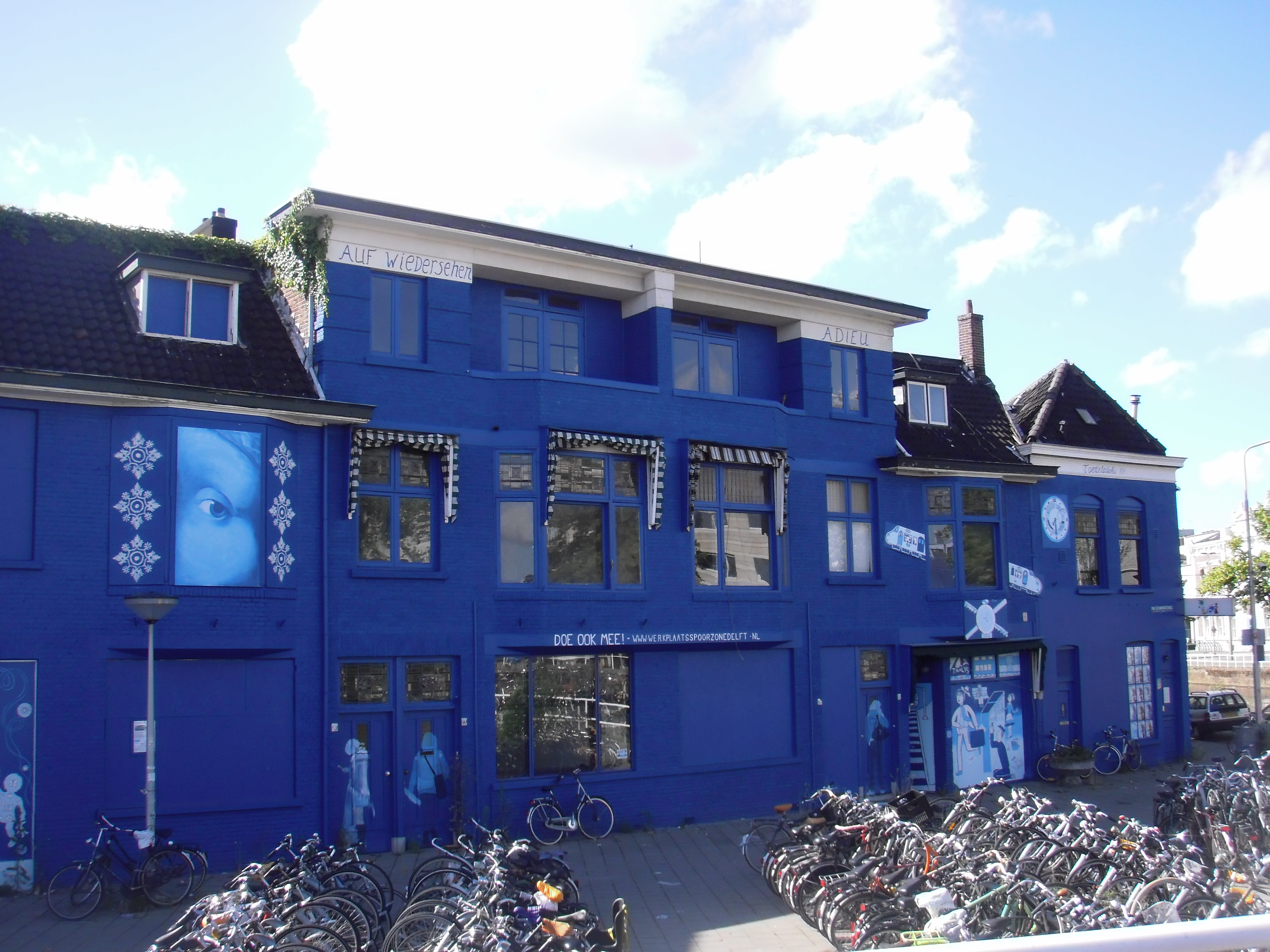 A few buildings in Delft, The Netherlands. The building on the right corner of the street has become well known after a shooting in 1983. (First painted blue and then demolished in the "Spoorzone-project" (2010)).